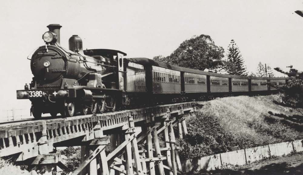 Class P6 (C3380) locomotive - "The South Coast Daylight Express" Dated: c.1935 Digital ID: 17420_a014_a014000717 Rights: We'd love to hear from you if you use our photos/documents. Many other photos in our collection are available to view and browse on our website using Photo Investigator.